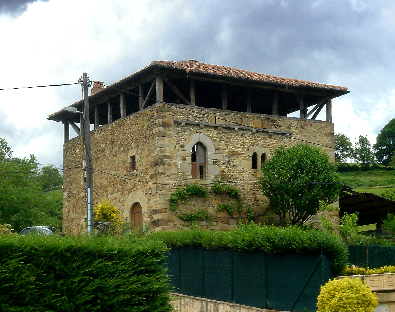 Izurtza tower (Izurtza, Biscay, Basque Country, Spain)